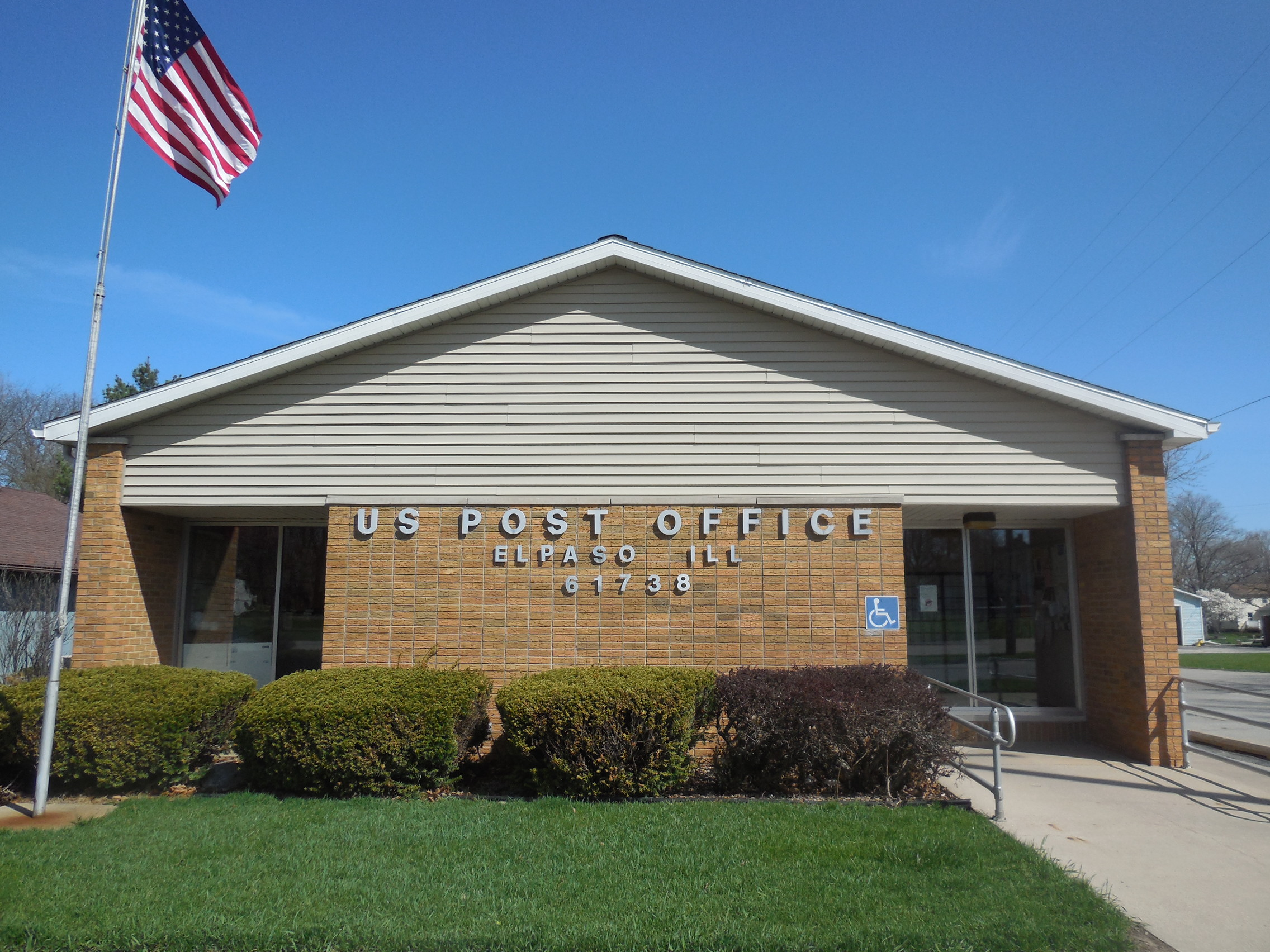 401 W Front St, El Paso, IL 61738